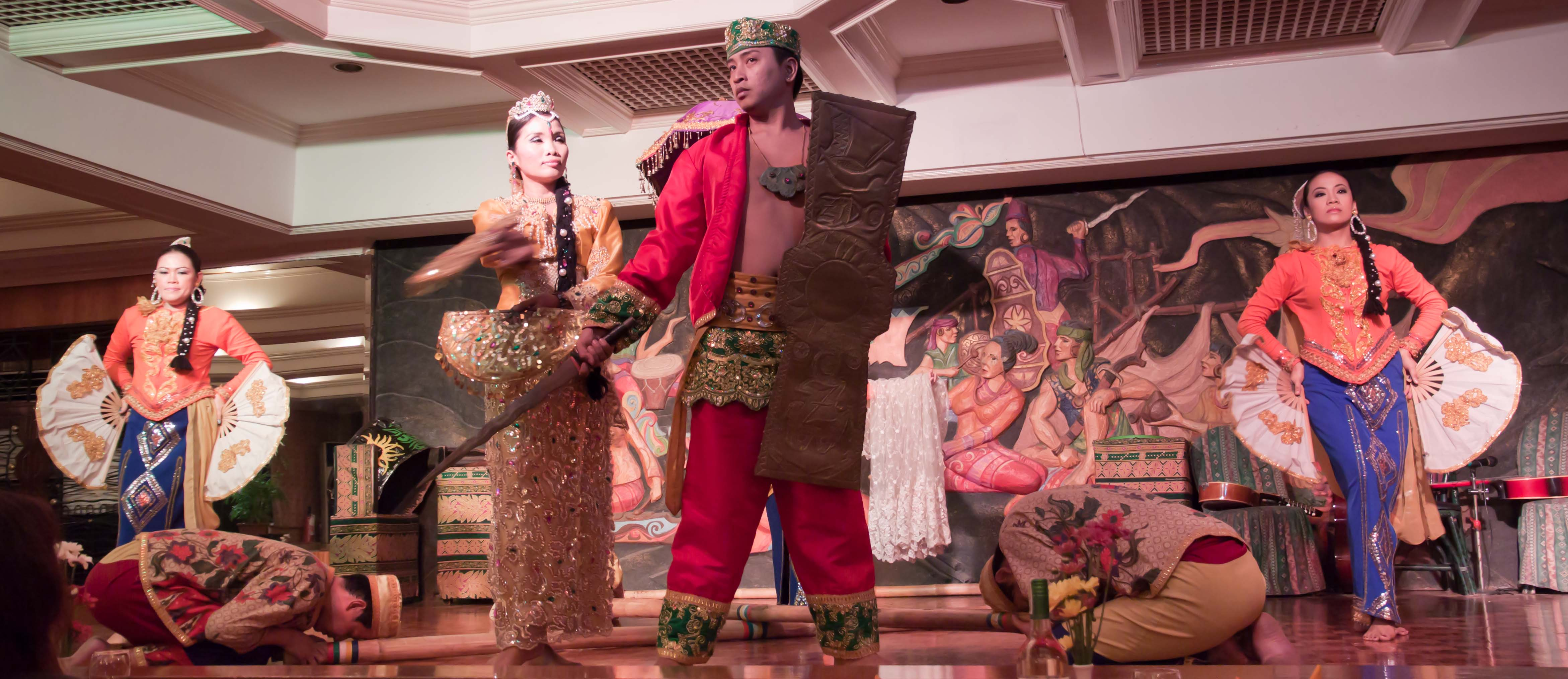 Dancers performing at Zamboanga Restaurant